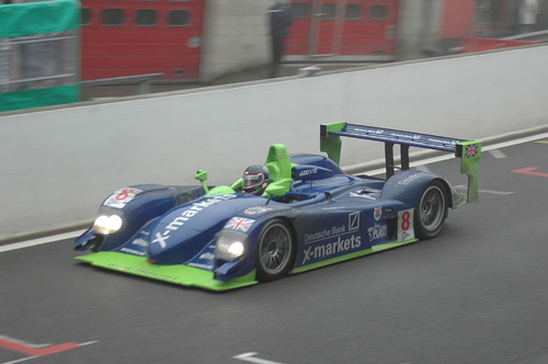 Vanina Ickx driving a Rollcentre Racing's Dallara LMP at the 2005 1000km of Spa.